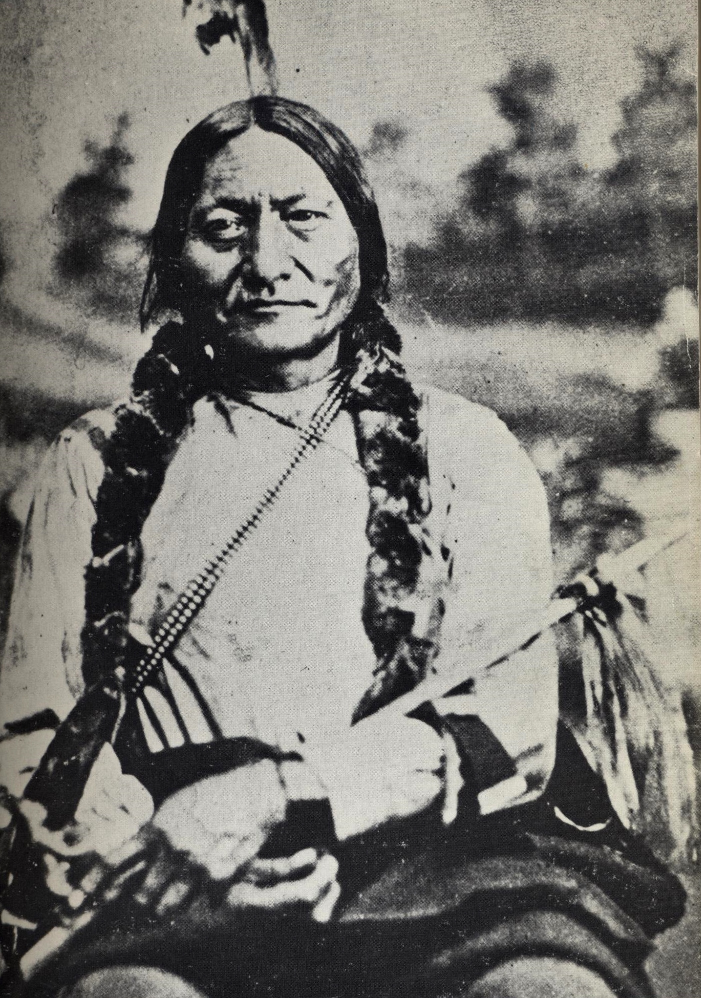 The only known photo of Sitting Bull taken in Canada. Photo by T.G.N.Anderton. Saskatchewan Archives, RA- 5043